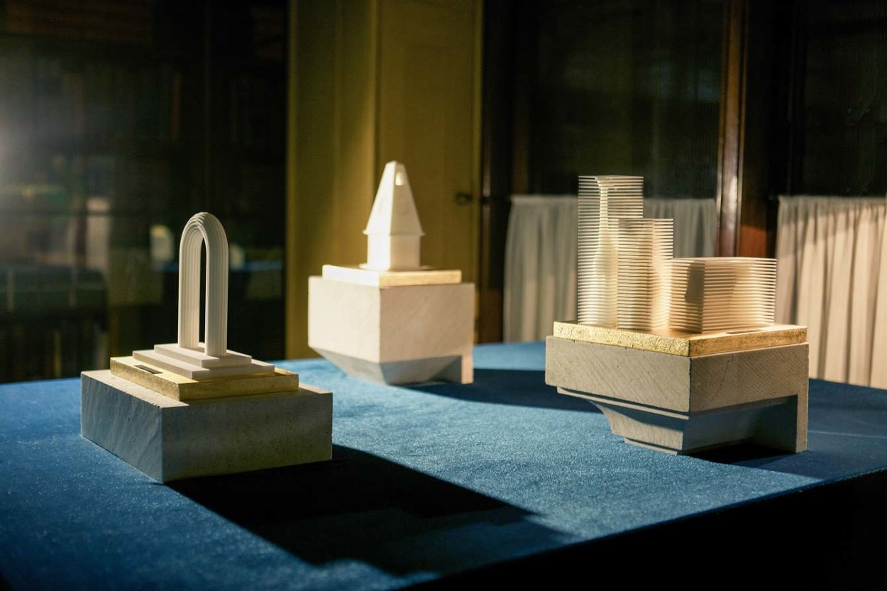 Monumental Masonry exhibition at the John Soane Museum